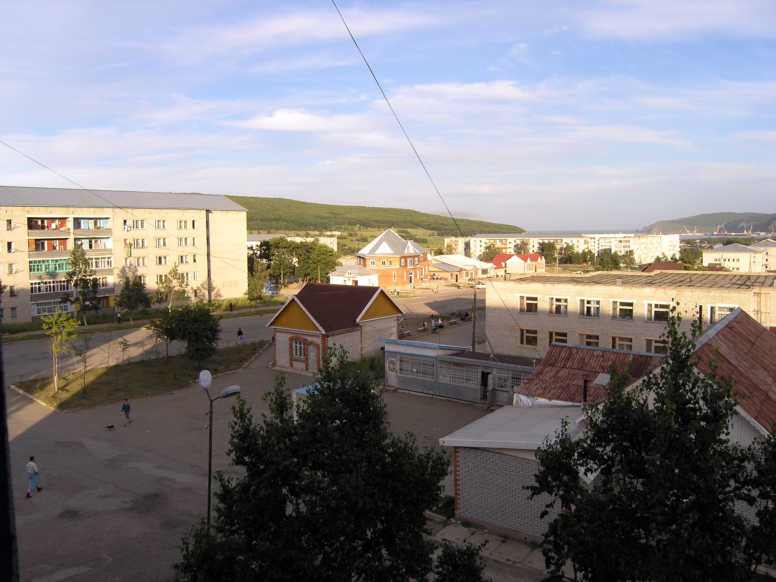 The centre of the Plastun settlement in 2004.